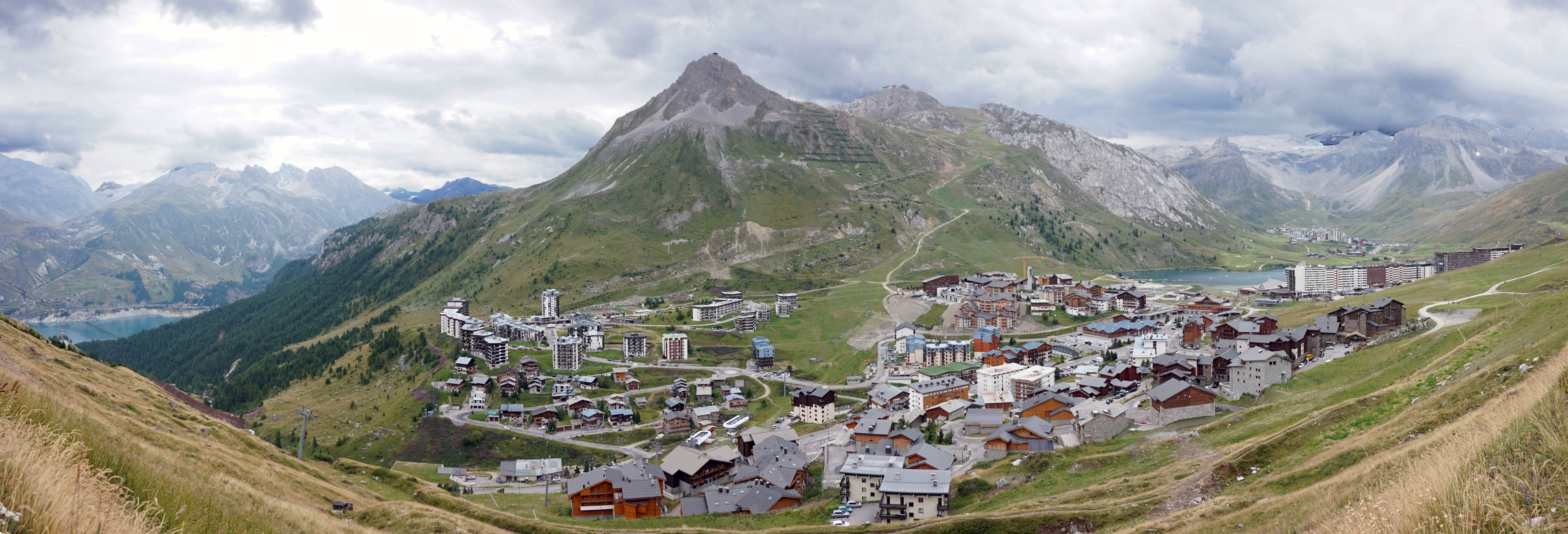 View to Tignes and Grande Motte. This photograph was taken with a Sony Alpha a5000.